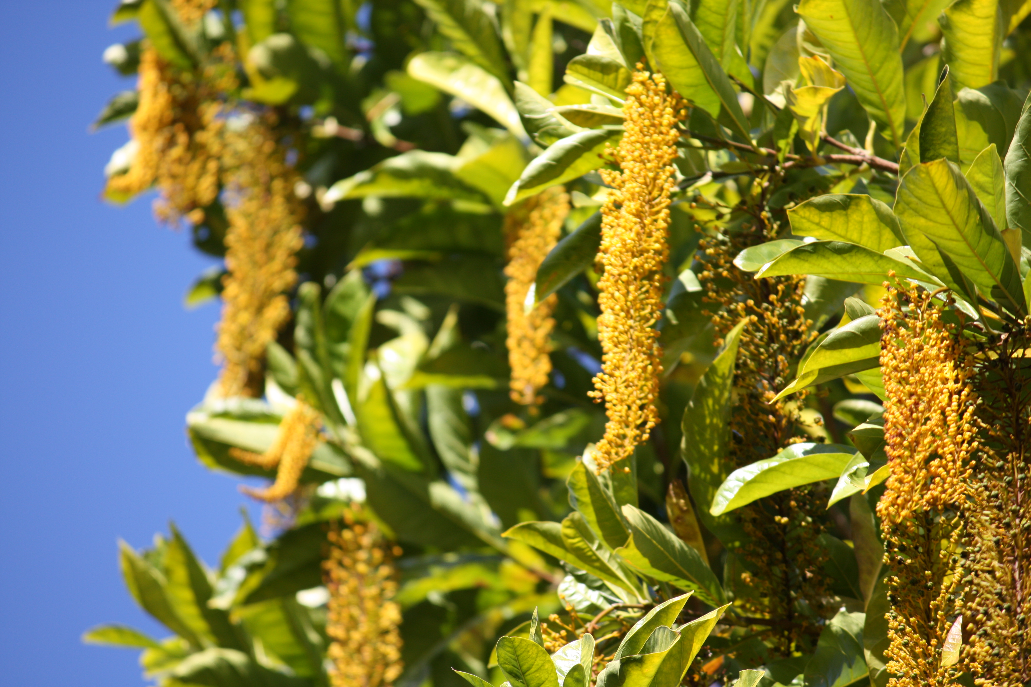 At Mt Coot-tha Botanical Gardens, Brisbane. Native of Brazil.